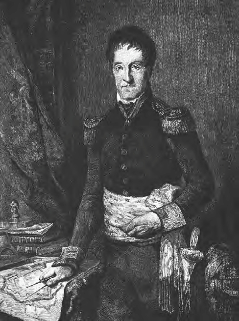 Lazare Carnot, a feverishly productive member of the Committee of Public Safety during the Terror. His part in raising the levée en masse probably saved the French Revolutionary armies from defeat at the hands of their numerically superior opponents.